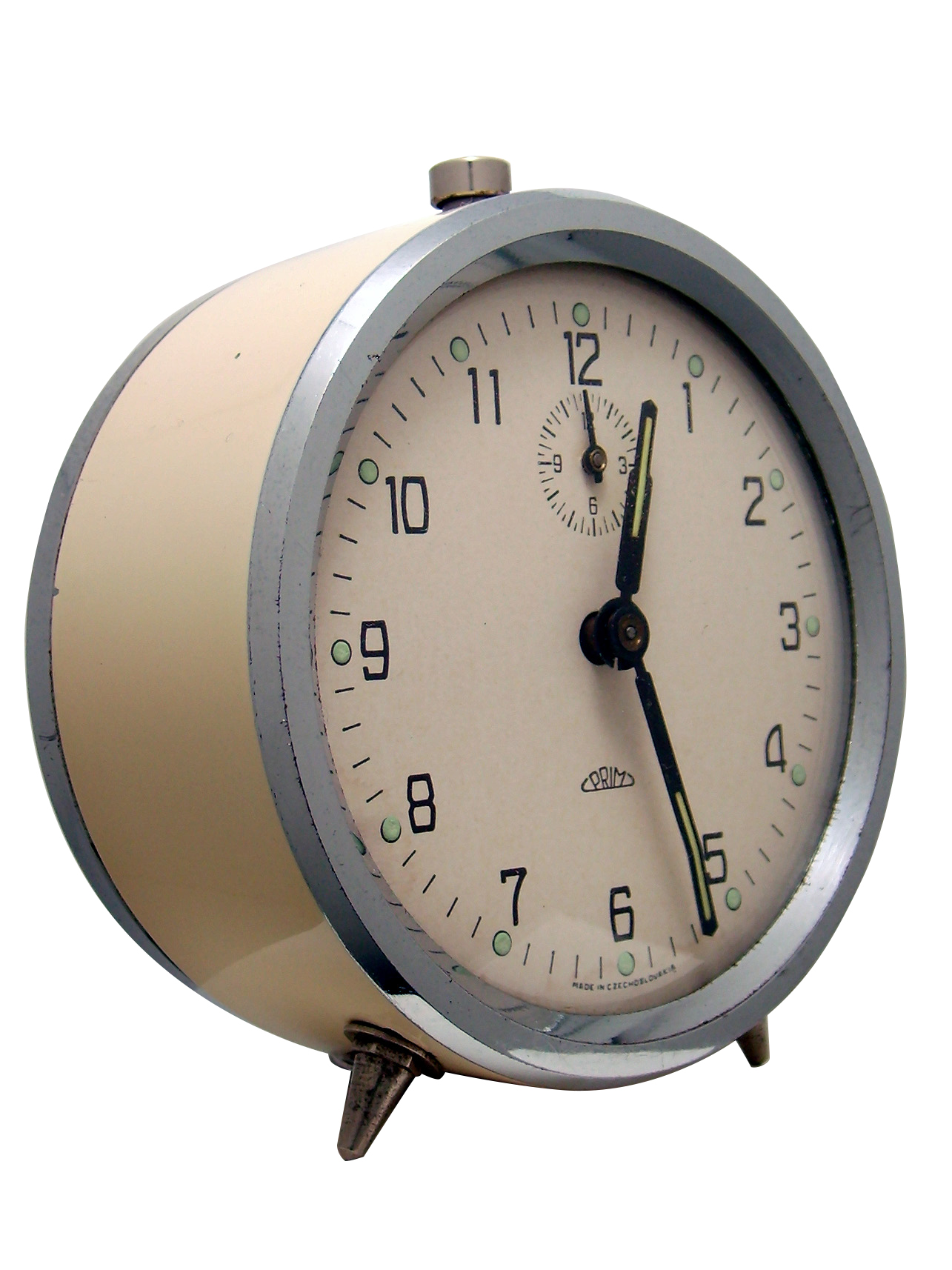 Alarm clock of make Prim, made in Czechoslovakia.